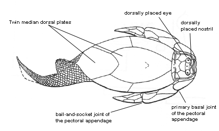 Asterolepis traits